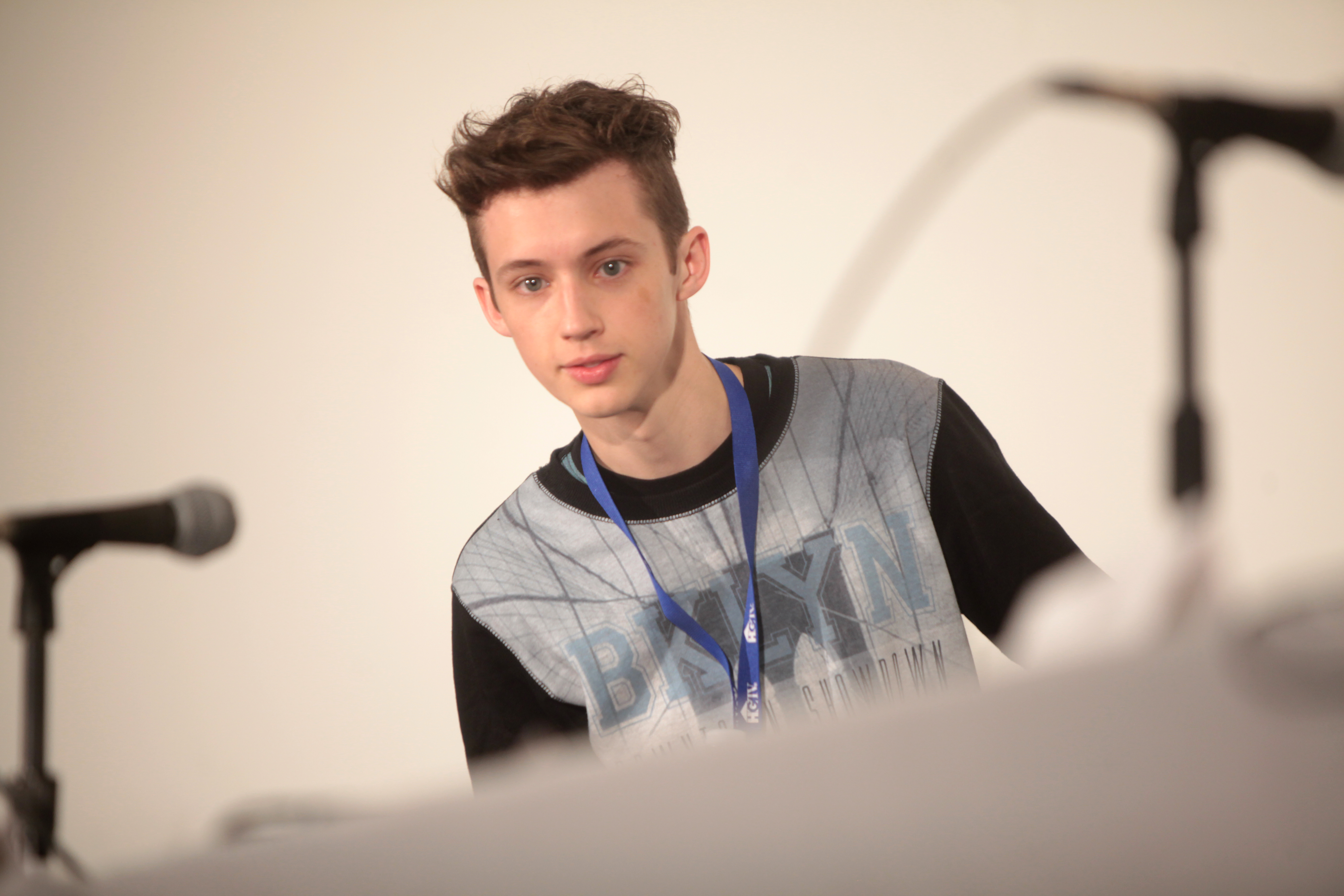 Troye Sivan speaking at the 2014 VidCon at the Anaheim Convention Center in Anaheim, California.